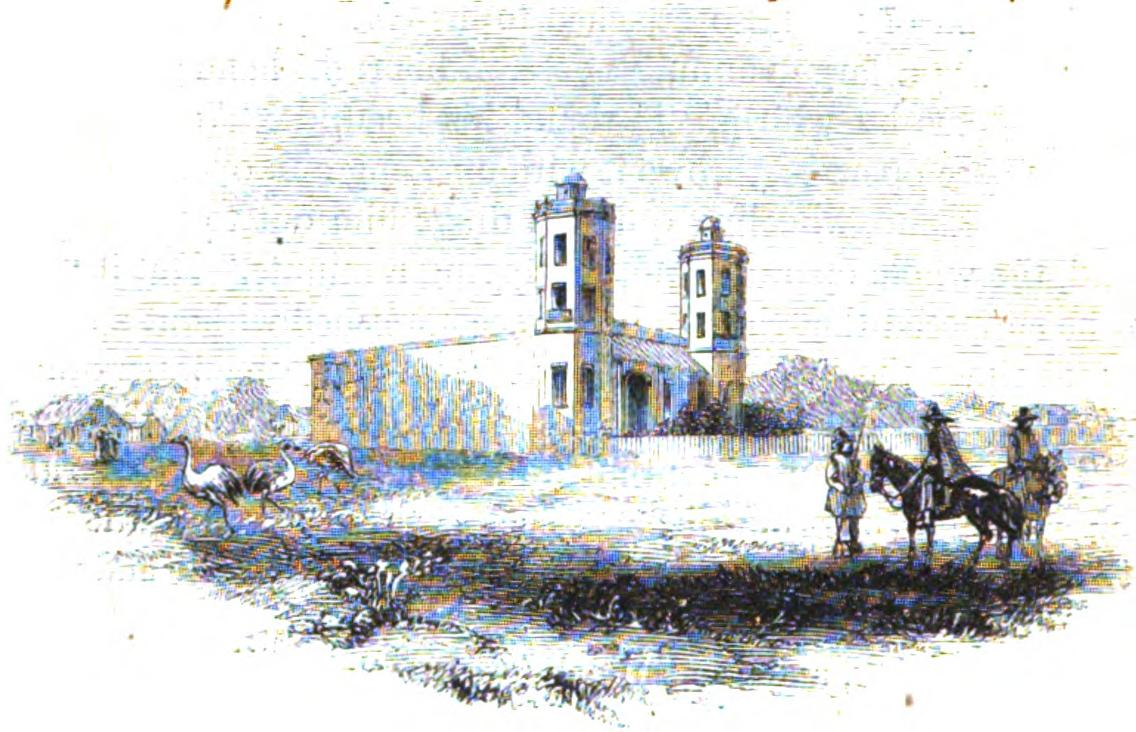 San José, the estancia of Urquiza